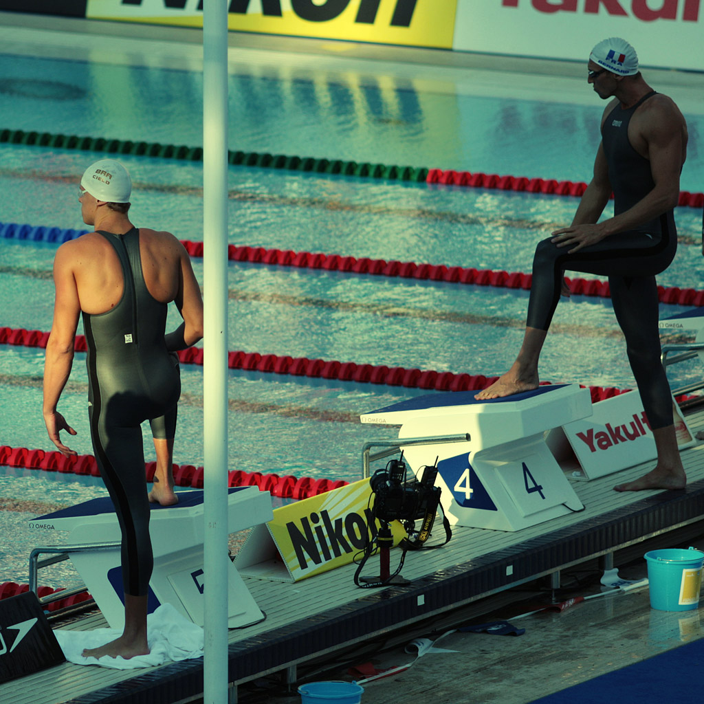 Brazilian swimmer César Cielo (left) and French Alain Bernard (right) before the 100m freestyle final during 2009 FINA World Championships, Rome, Italy.